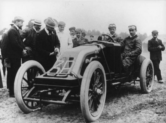 Renault driver J. Edmond in the Renault Type AK at 1906 French Grand Prix